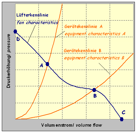 Operating points of an axial fan. A: in an equipment with high impedance; B: in an equipment with low impedance, C: free blowing fan; D: blocked fan